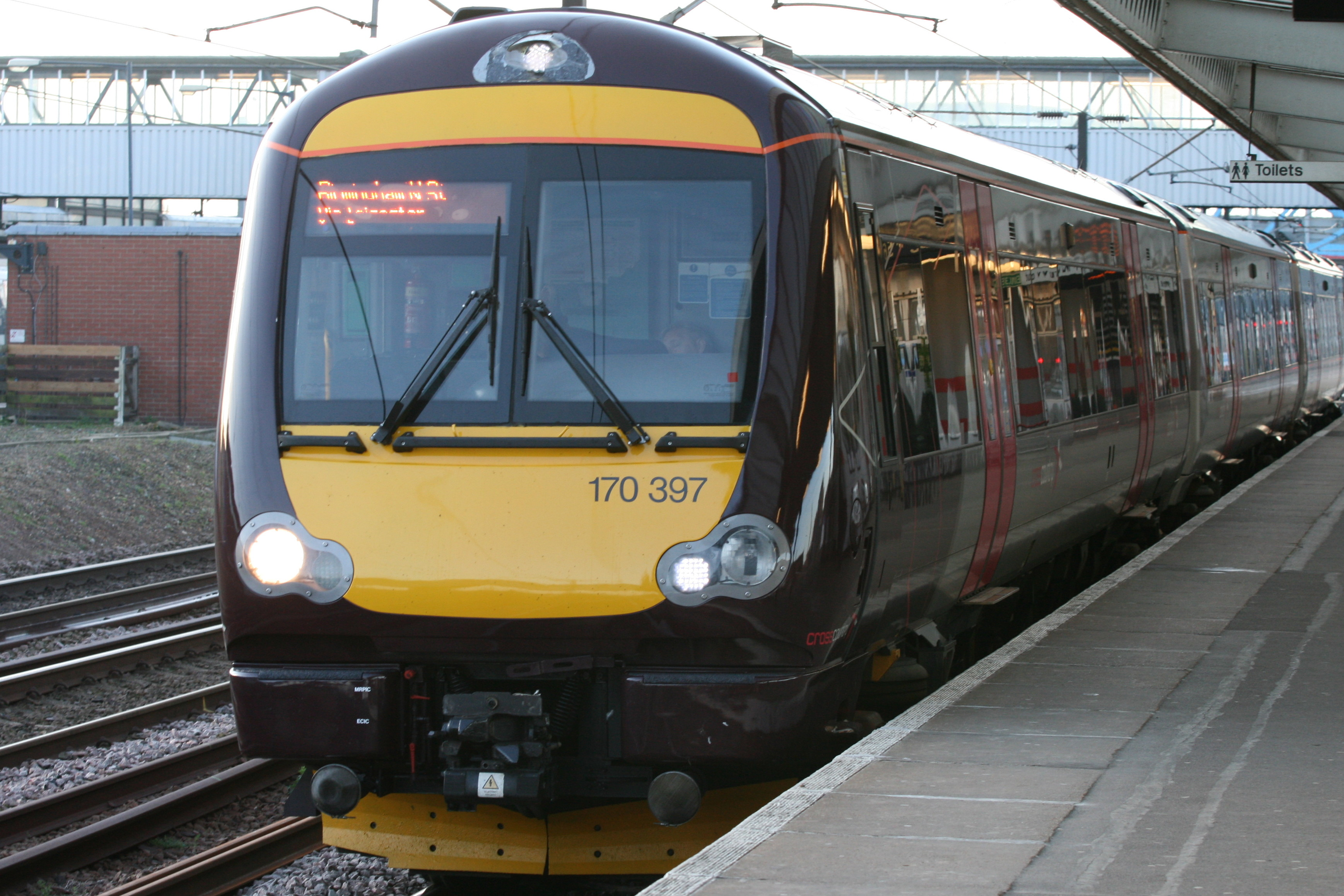 CrossCountry British Rail Class 170 number 170397 at Peterborough railway station. These units were inherited by CrossCountry from Central Trains and can be seen operating most of their former Central Trains Services.